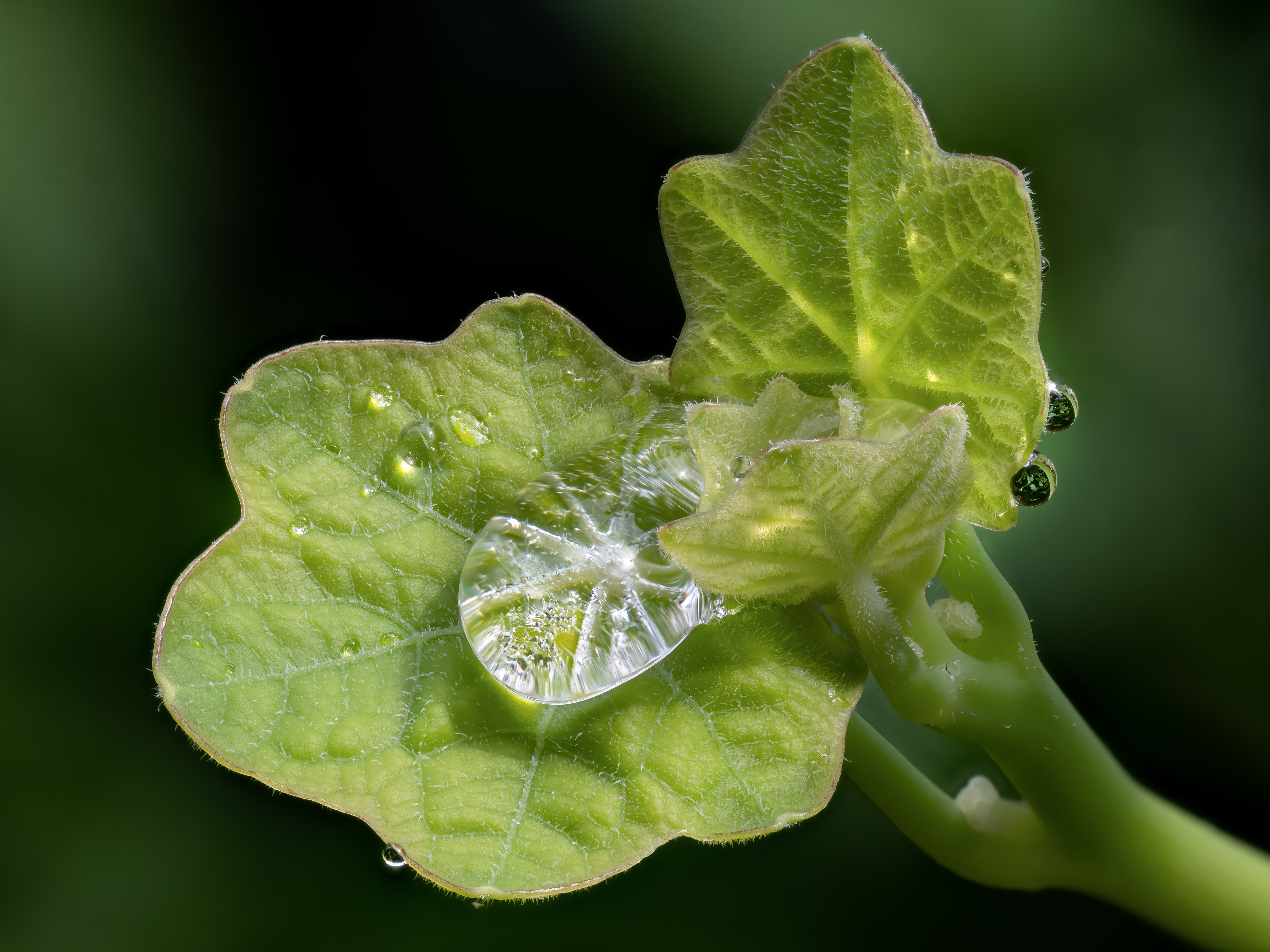 Nasturtium leaves with water drops stacked with Zerene Stacker from 18 pictures